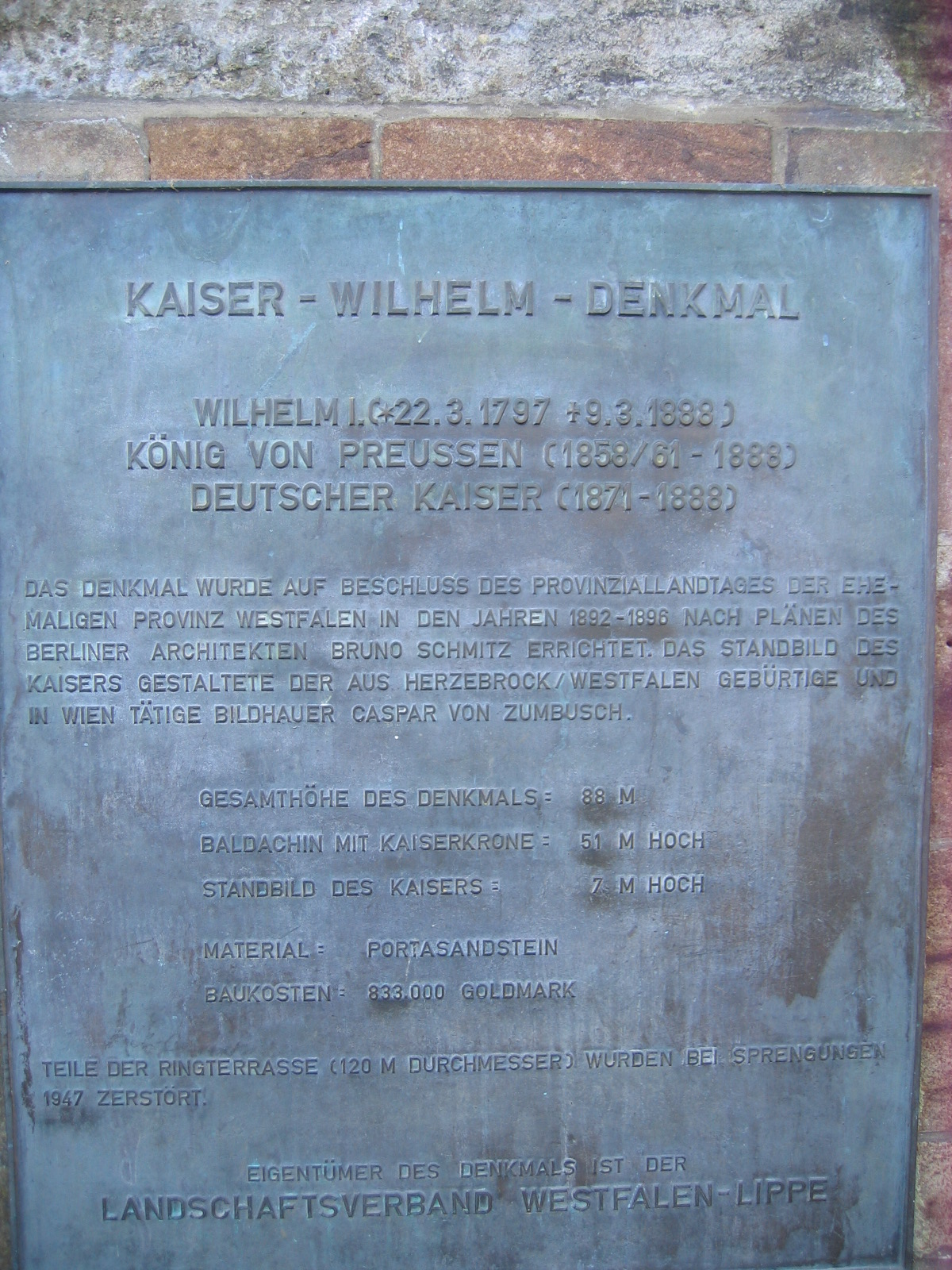 Wilhelm I monument near Porta Westfalica, District of Minden-Lübbecke, North Rhine-Westphalia, Germany.